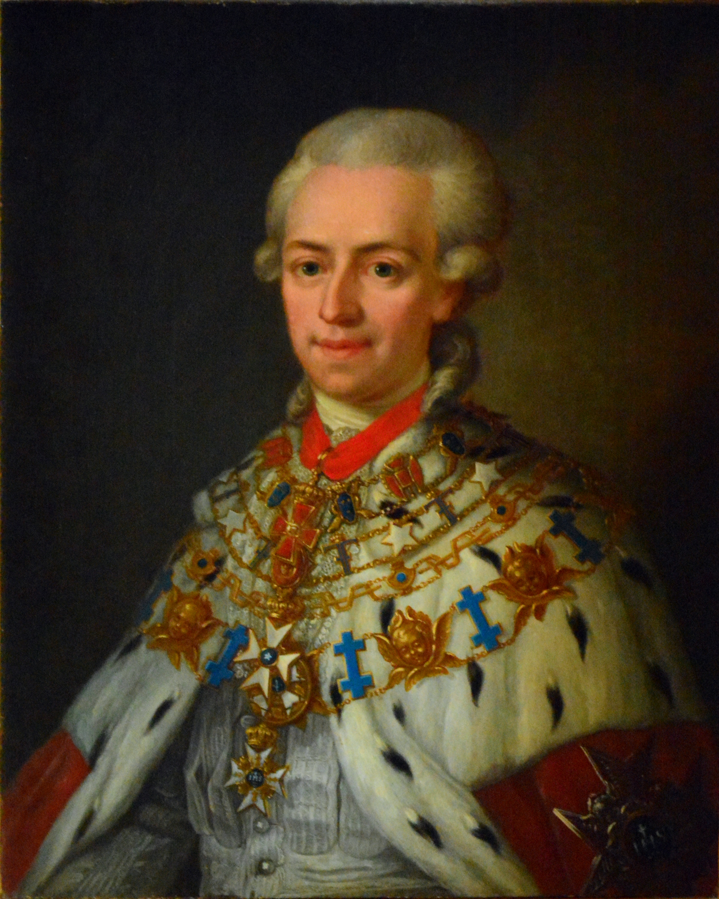 Portrait of Johan Gabriel Oxenstierna, Swedish